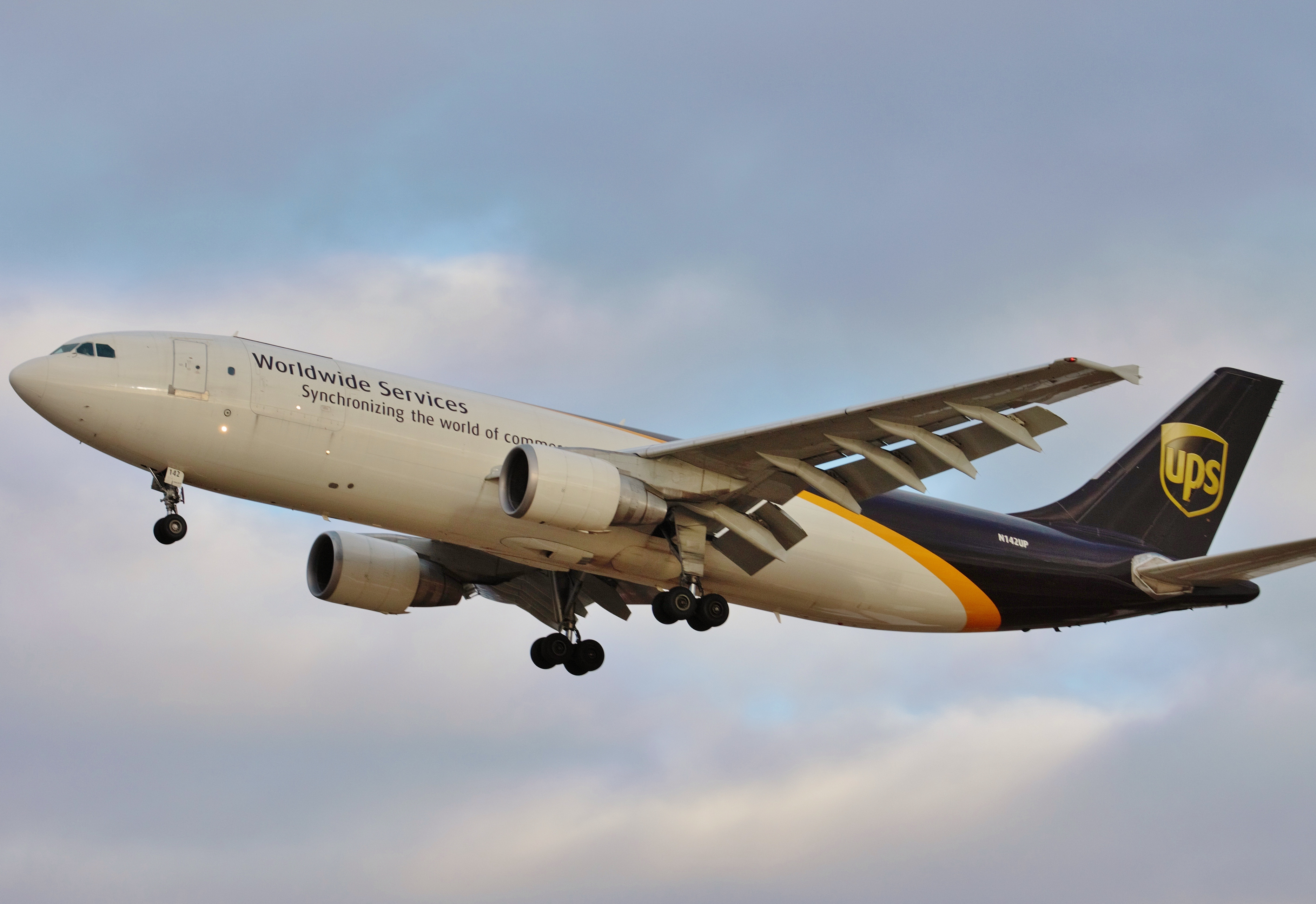 Side view of a Airbus A300-600RF Freighter operated by UPS Airlines on approach to Des Moines International Airport.